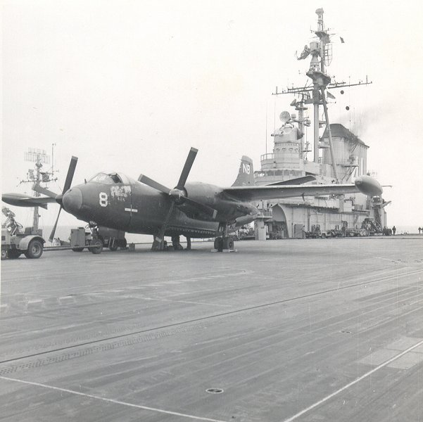 A North American AJ-2 Savage bomber of U.S. Navy composite squadron VC-5 Det. "Savage Sons" in 1953. VC-5 was assigned to Carrier Air Group 6 (CVG-6) aboard the aircraft carrrier USS Midway (CVA-41) for a deployment to the Mediterranean Sea from 1 December 1952 to 19 May 1953.